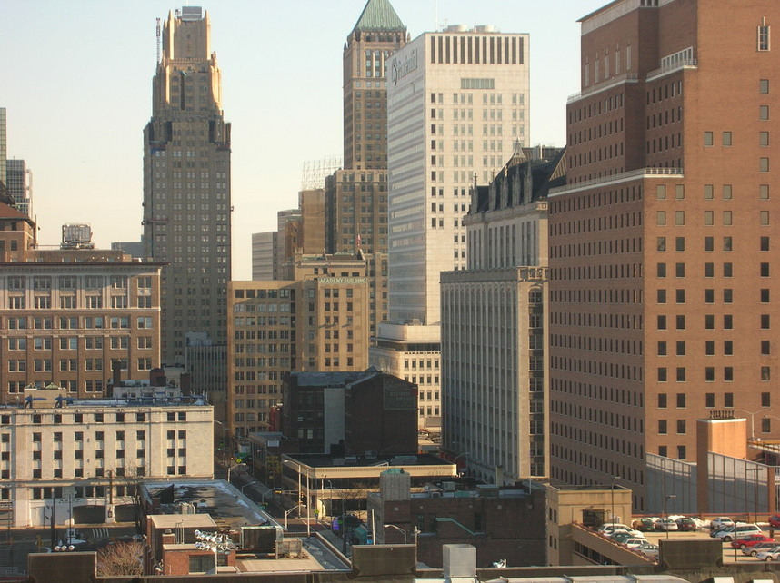 Newark syline looking east with Prudential Building, Gibraltor Building, and Prudential Plaza at right